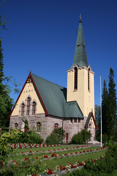 Humppila Church in Humppila, Finland